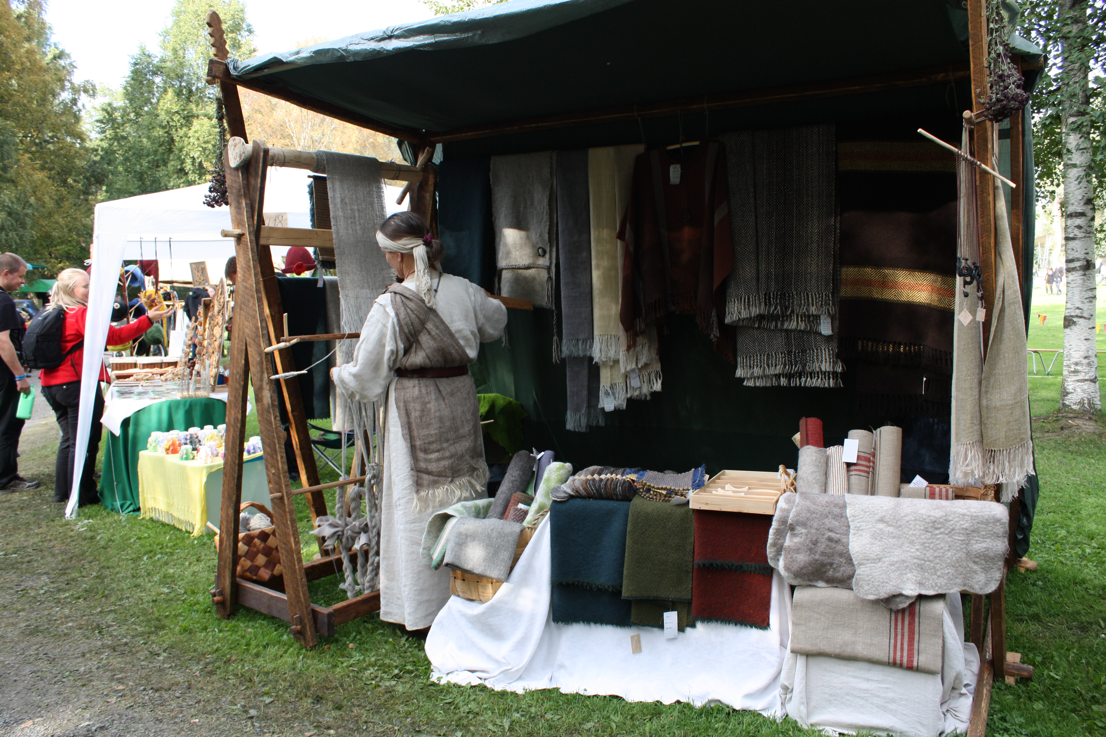 Products of linen - Hämeenlinna Medieval Market 2009